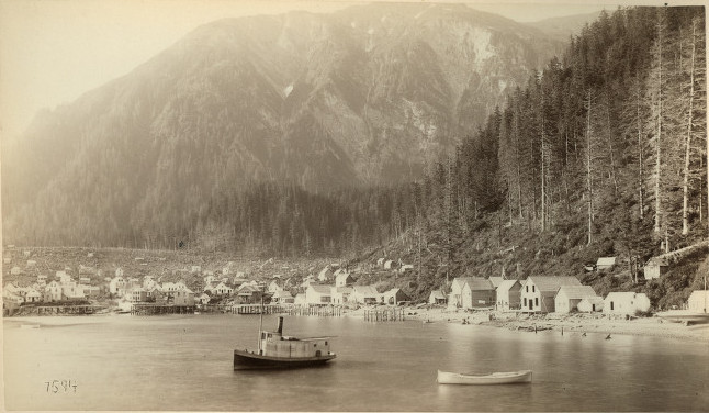 Title: Juneau City. Creator: Partridge Photo. Date: 1887 Place: Alaska Part Of: Partridge's Alaska photographs Physical Description: 1 photographic print: 11 x 19 cm. on 14 x 22 cm. mount File: ag1982_0092_24_juneau_sm_opt.jpg Rights: Please cite Southern Methodist University, Central University Libraries, DeGolyer Library when using this image file. A high-quality version of this file may be obtained for a fee by contacting . For more information, see: View U.S. West: Photographs, Manuscripts, and Imprints